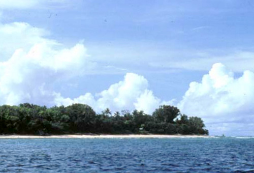 A view from the sea of the SW end of Pulo Anna Island, Southwest Islands of Palau. Original field note: Notice here that the native vegetation has not been replaced with coconuts. Pulo Anna is a lush island with a small human population, so the vegetation has been interfered with less than on islands with larger populations.